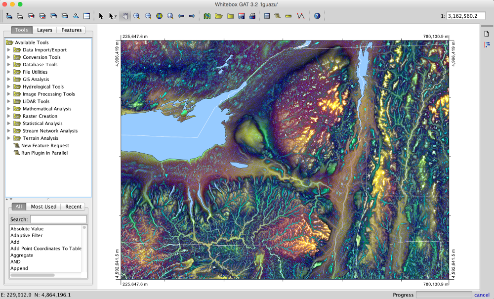 Whitebox GAT displaying multiscale topographic position image